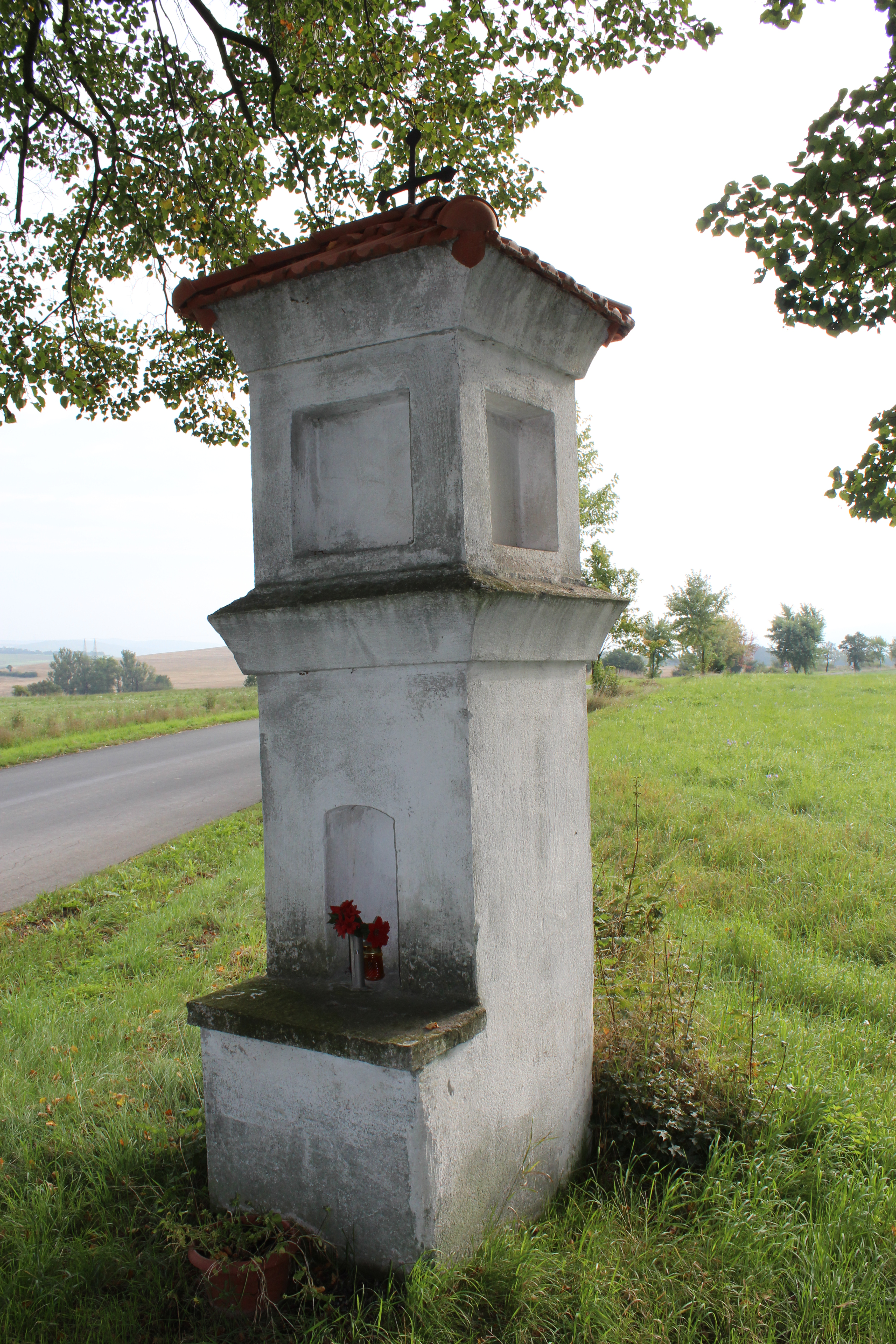 Wayside shrines in Liteň